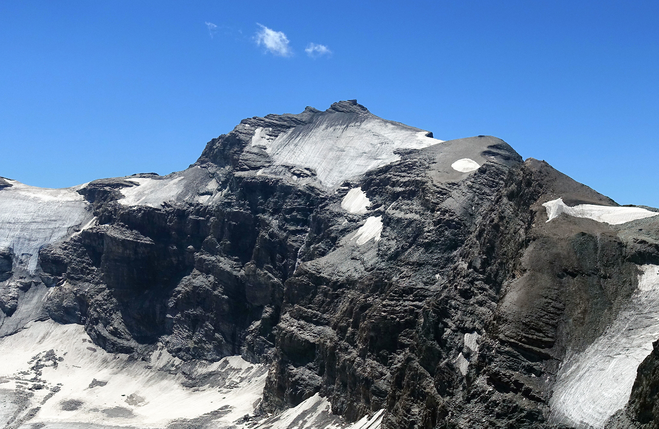 Zermatt, Switzerland.